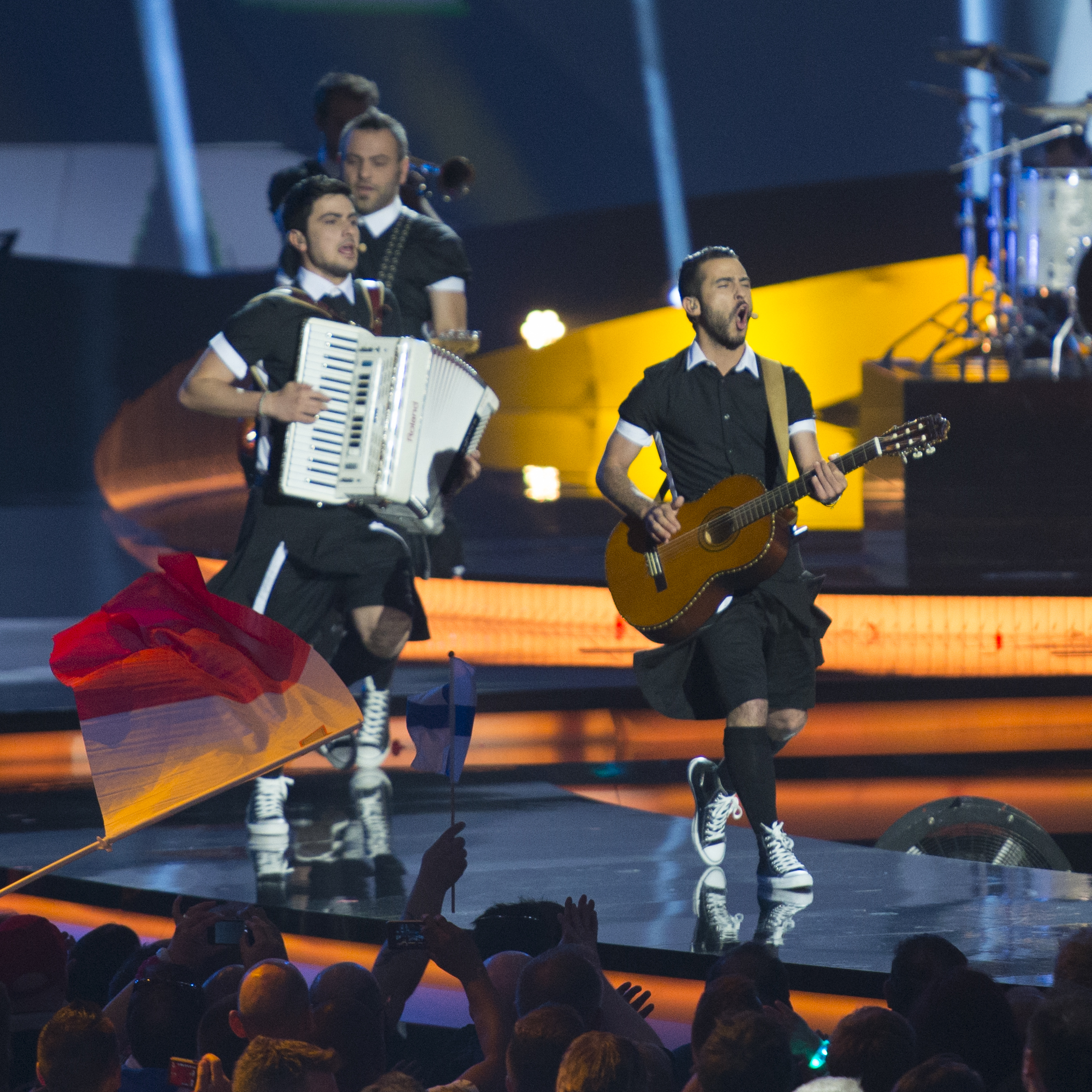 Koza Mostra feat. Agathon Iakovidis representing Greece with the song "Alcohol Is Free" during the second dress rehearsal of the second semi final of the Eurovision Song Contest 2013 in Malmö. (Help translate this text)